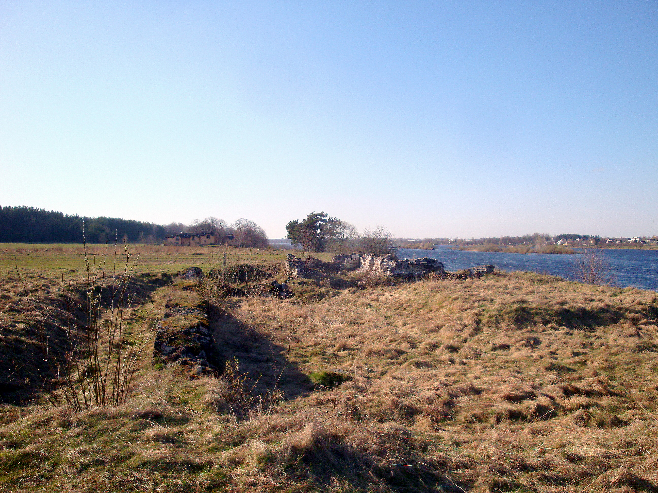 Ruins of Alt-Dole castle (before AD 1226)